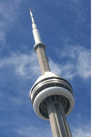 CN Tower in Toronto, Ontario, Canada. Image taken by imobius on August 12, 2005.